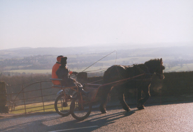 Pony and trap, High Hoyland.